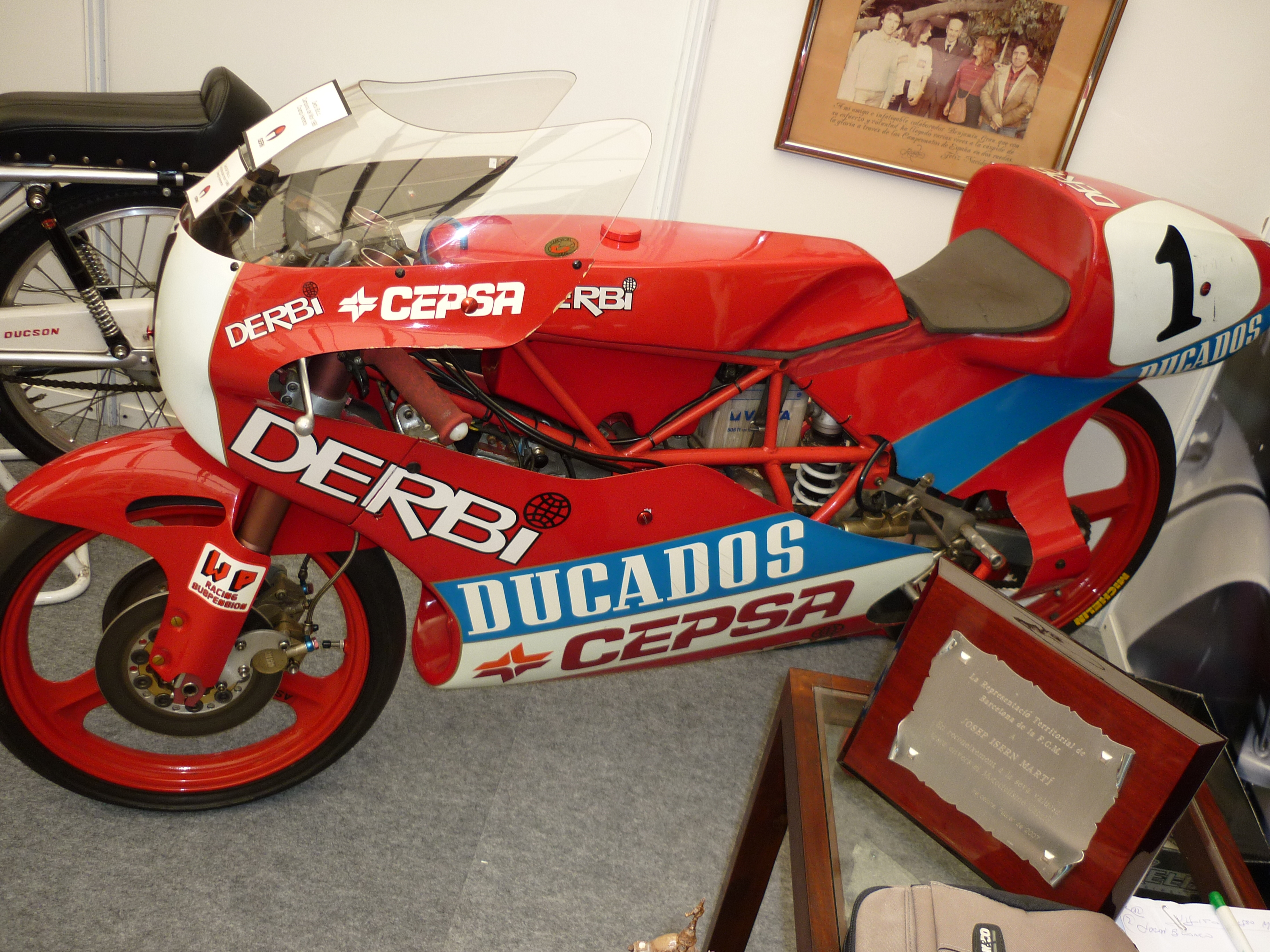 Derbi GP 80cc 1989. World Champion in 1989 ridden by Champi Herreros. Exposed by Josep Isern at the FIMO (Mollet del Vallès, Catalonia, 1 to 3 October 2010)